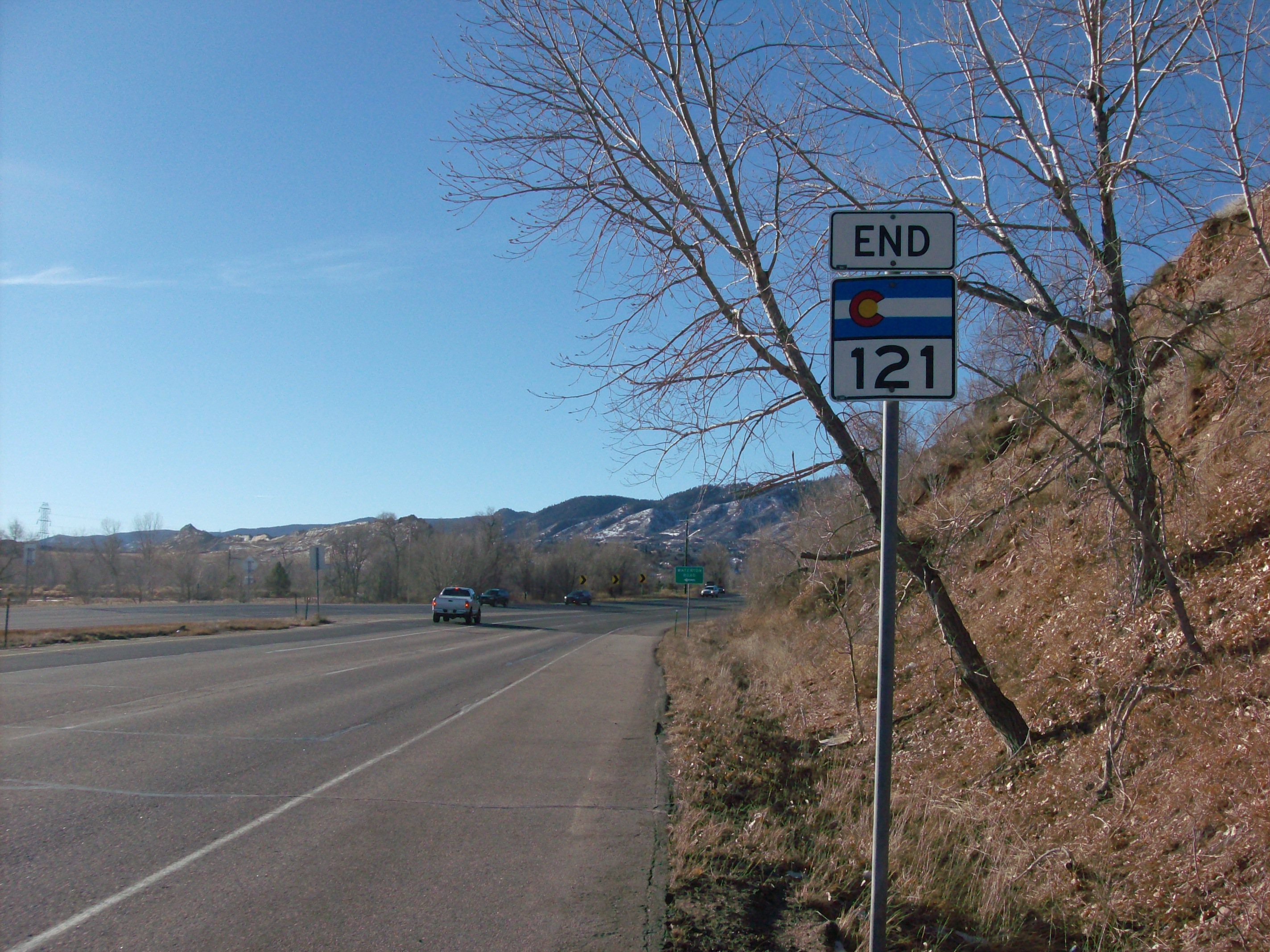 End sign for the southern terminus of Colorado State highway 121 in Jefferson County, Colorado. This is just before the road meets Waterton Road.